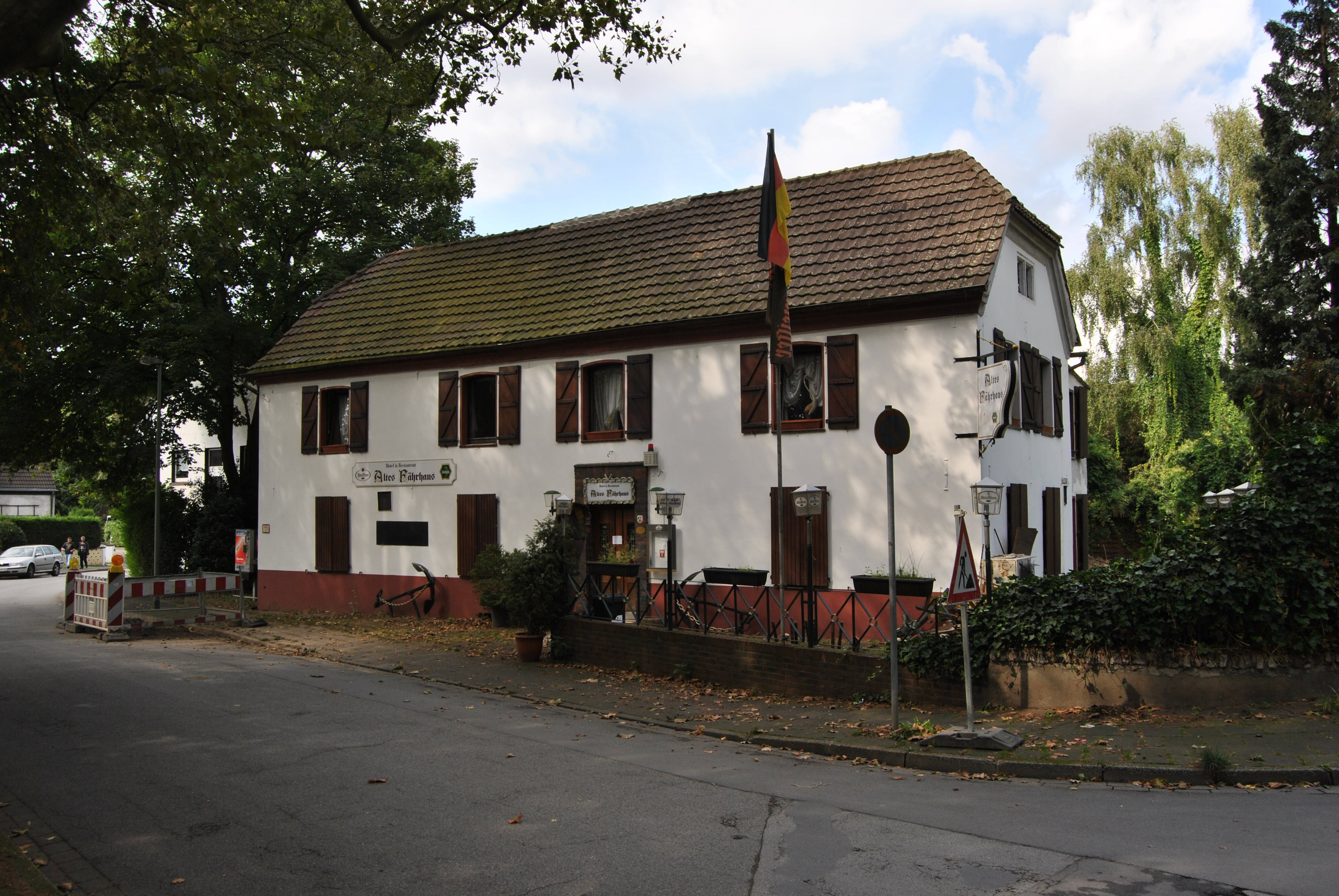 This photograph was taken with a Nikon D3000 This image shows a heritage building in Germany, located in the North Rhine-Westphalian city Duisburg. Altes Fährhaus in Duisburg-Hochemmerich